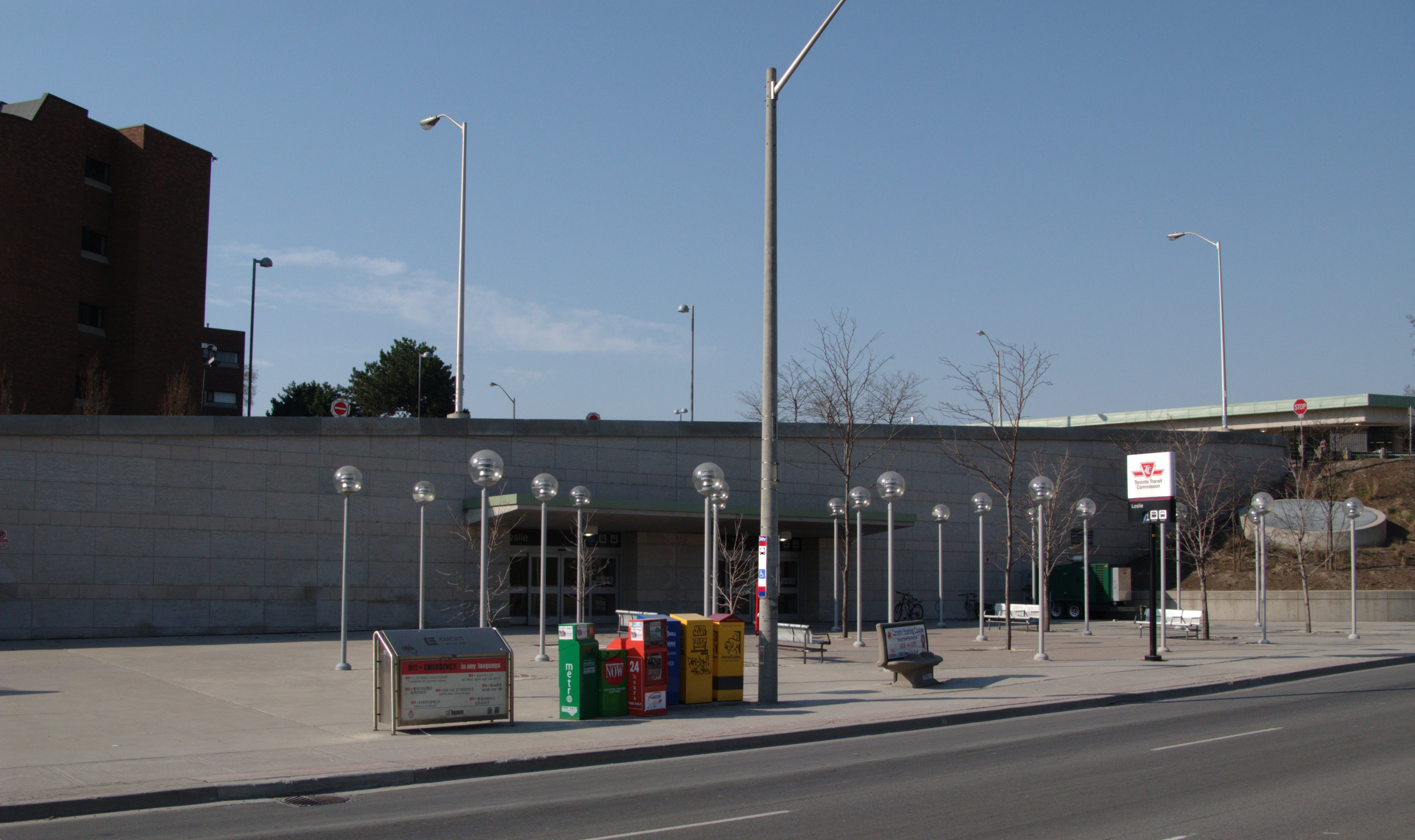 TTC Leslie station western Sheppard entrance